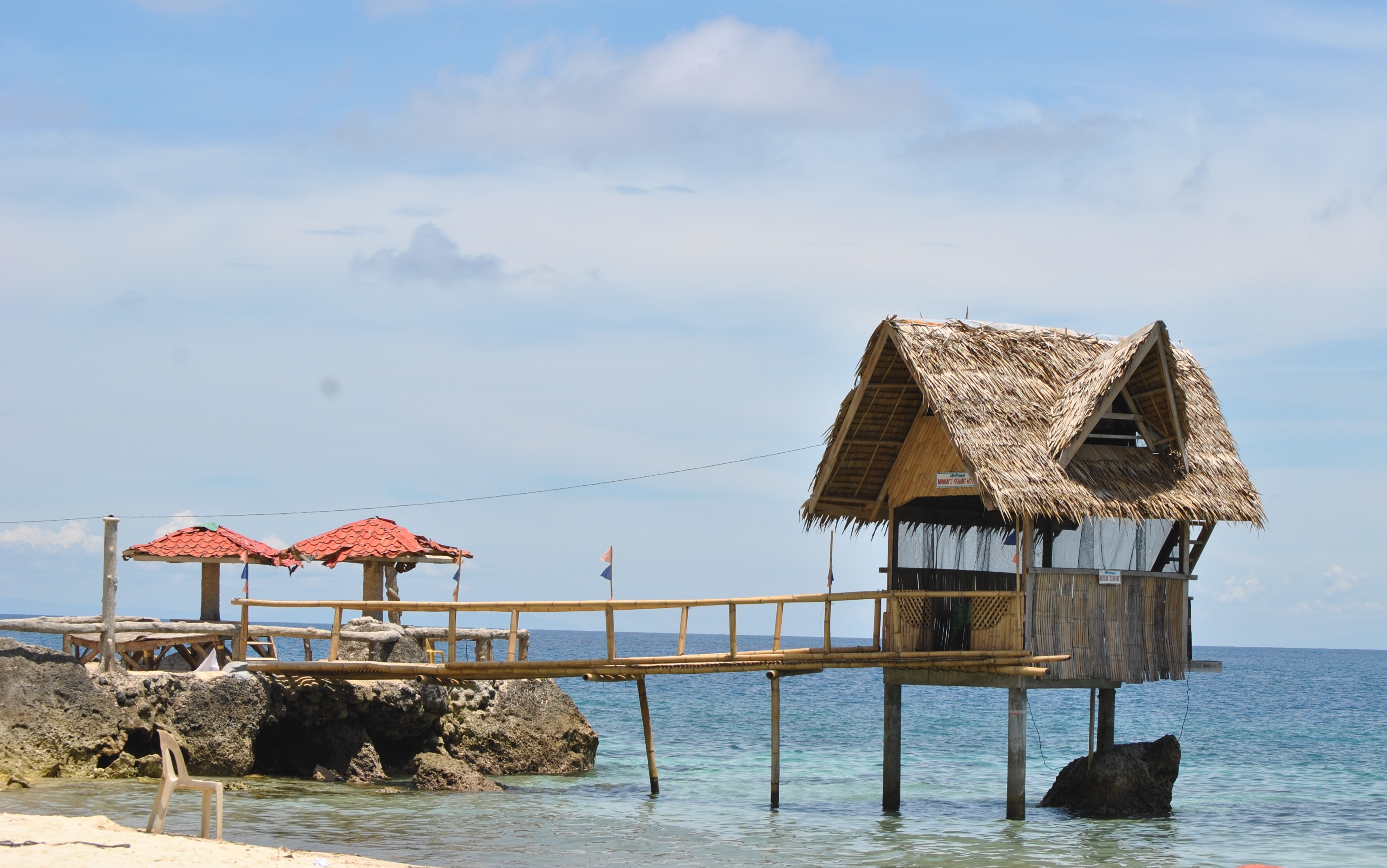 Pile building at Midway Beach, Initao, Misamis Oriental, Northern Mindanao, Philippines.